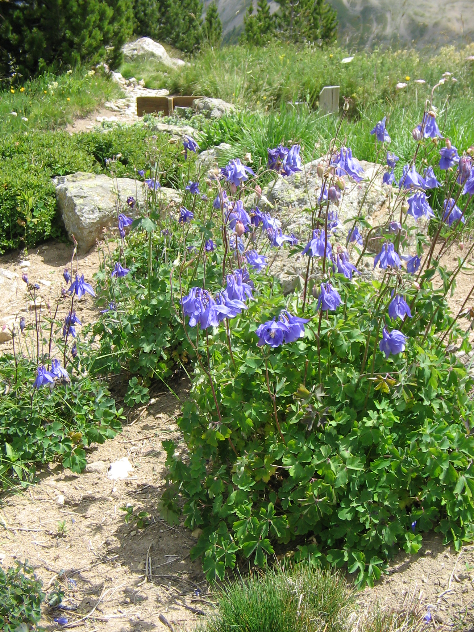 Aquilegia pyrenaica